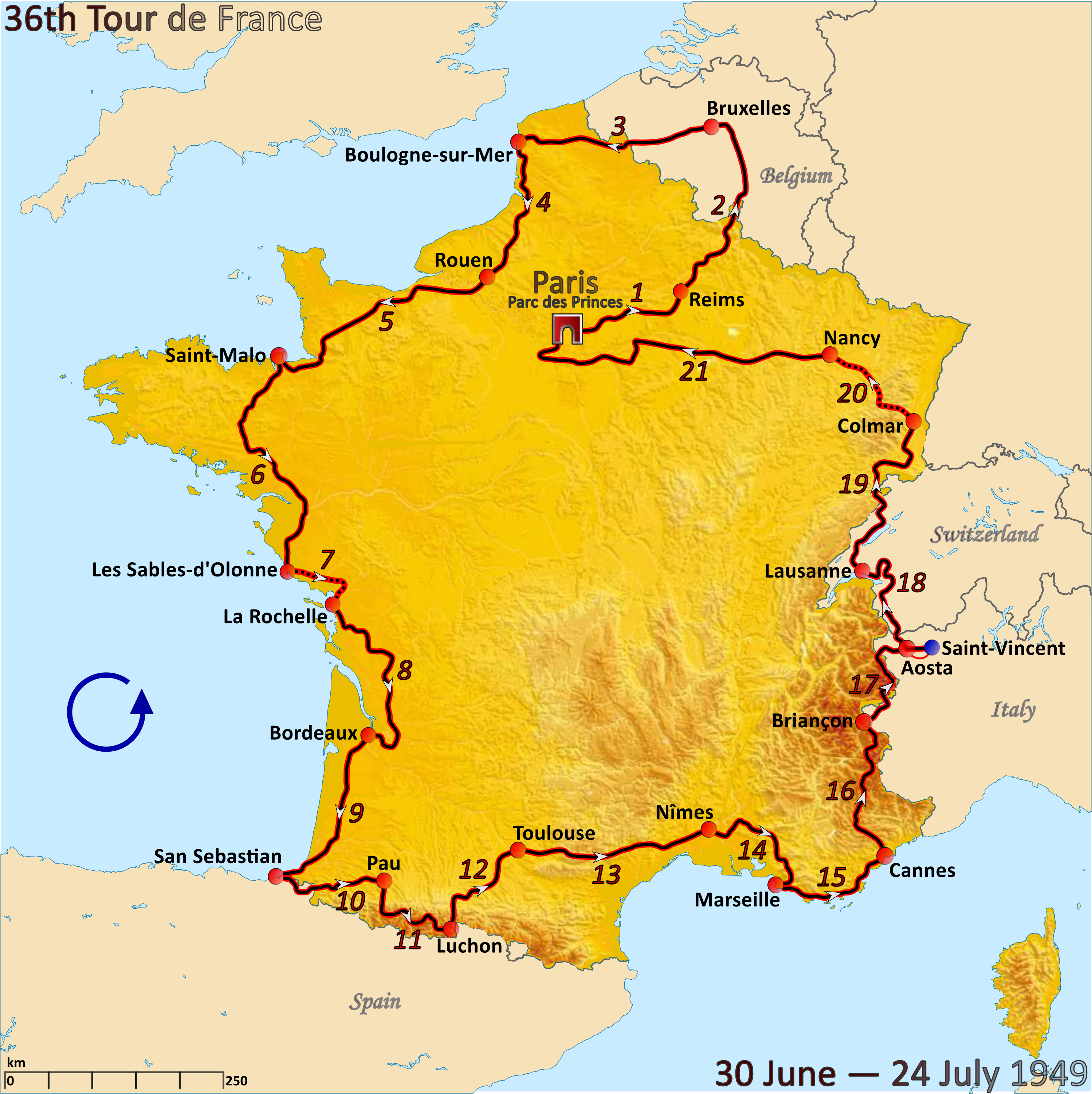 Route of the 1949 Tour de France created in Inkscape using accurate stage maps from touratlas.nl